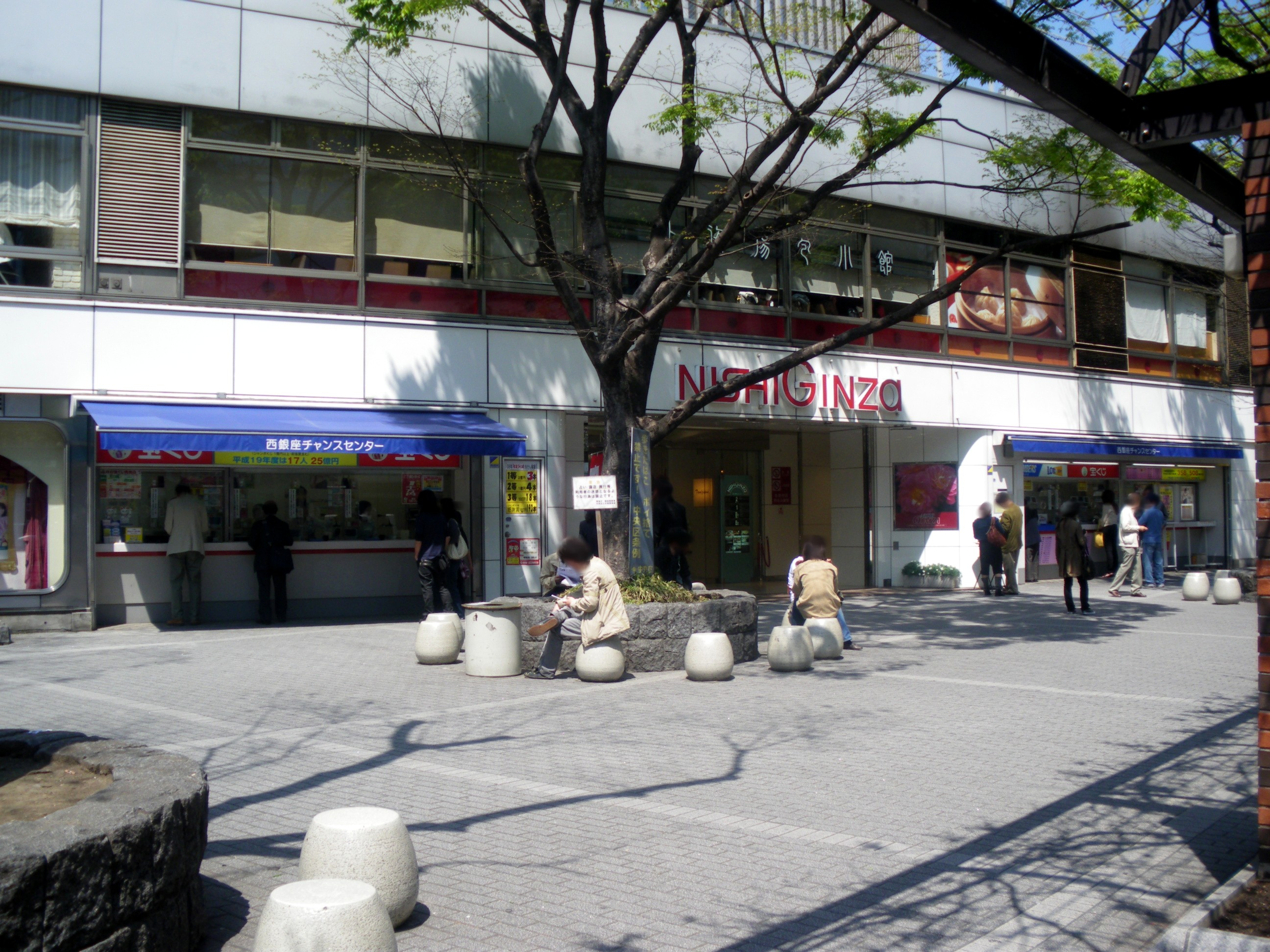 A photo of Nishi-ginza chance center, most famous lottery ticket booth in Japan. Ginza,Chuo-ku,Tokyo,Japan.